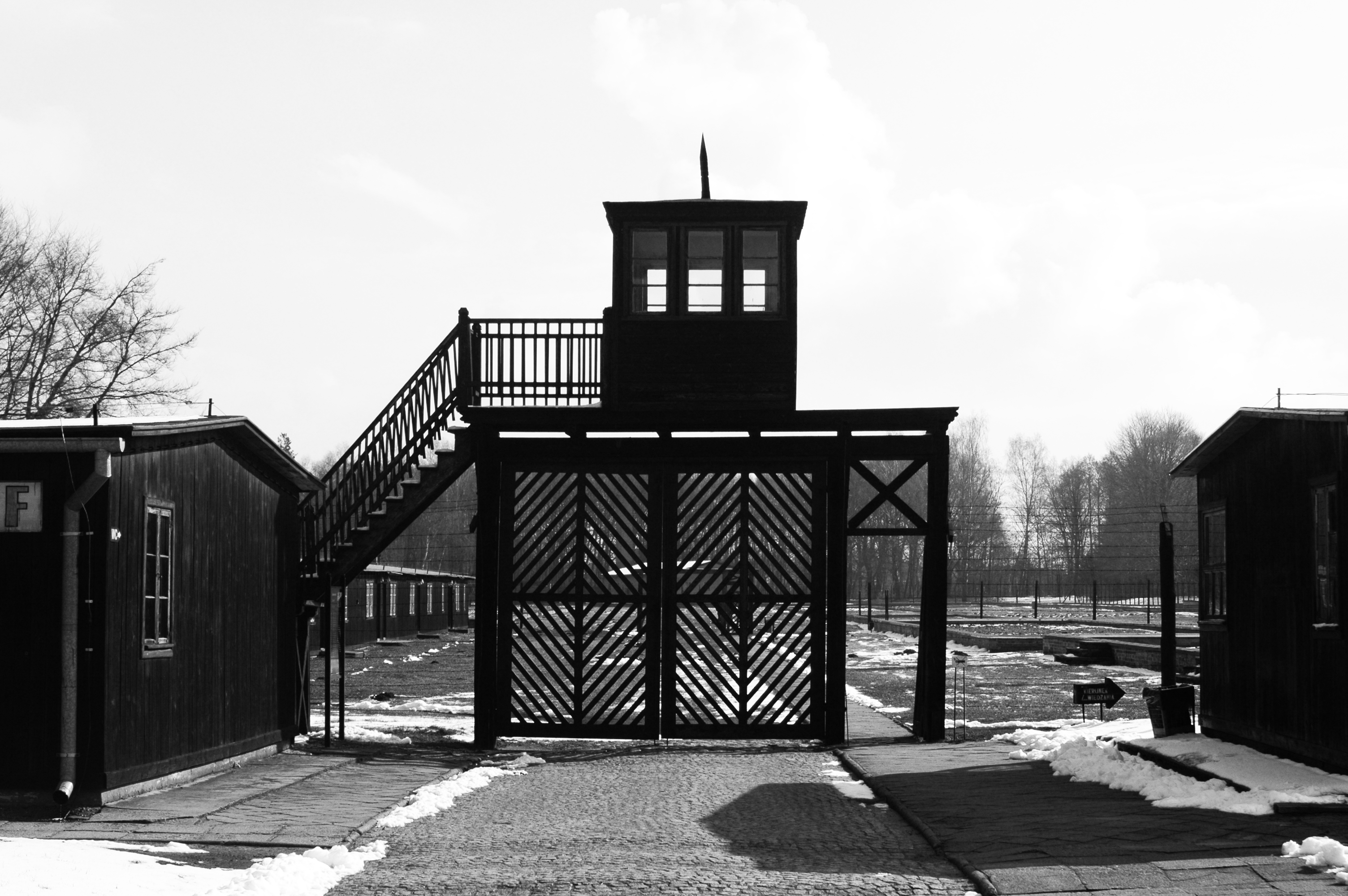 Death Gate